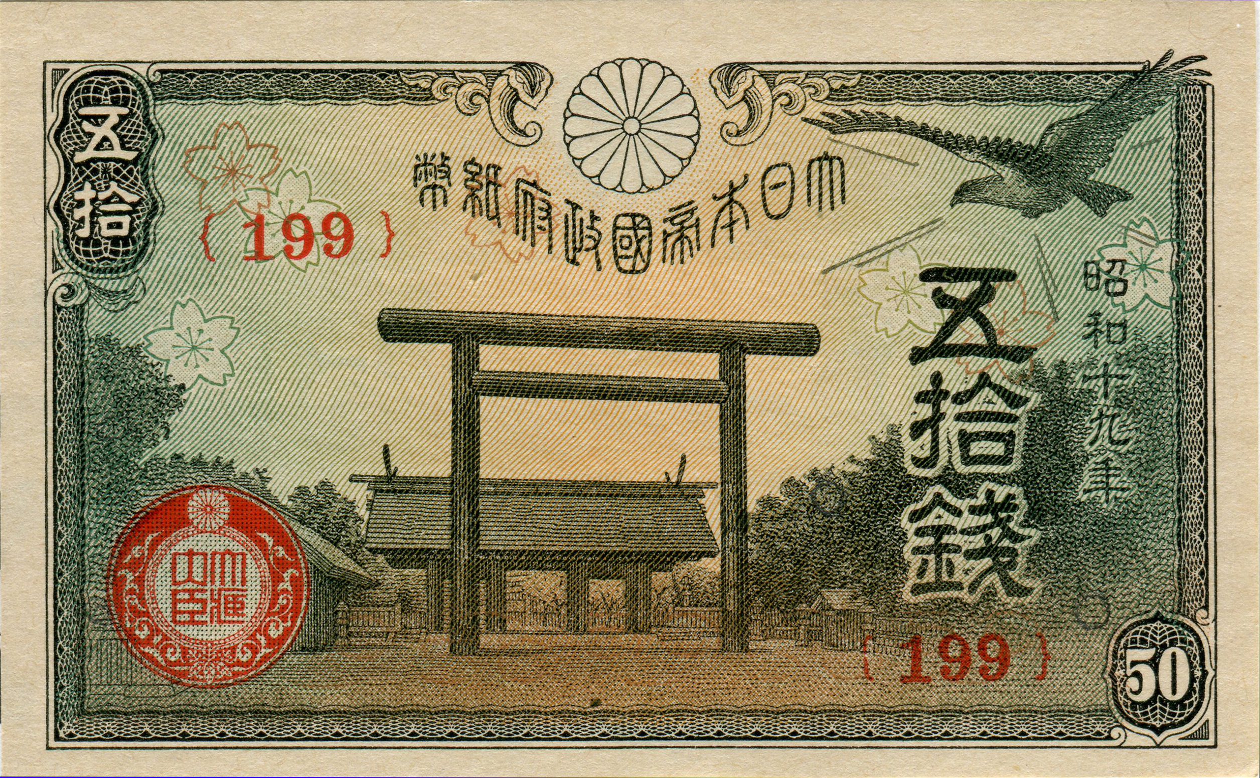 Japanese government small-face-value paper money, "Yasukuni" 50 Sen (=1/2 Yen). Yasukuni Shrine, cherry blossom and the Golden Kite which appears in Nihon Shoki. First issued in 1942. Expired in 1948. 65mm x 105mm.